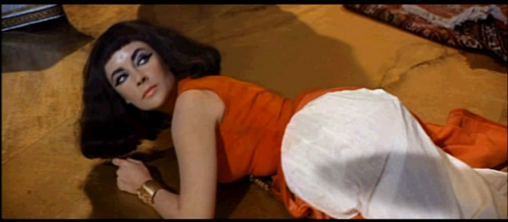 Screenshot of Elizabeth Taylor from the trailer for the film Cleopatra.